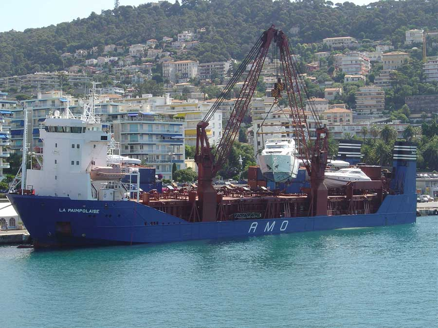 The heavy-lift ship La Paimpolaise unloading luxury yachts in the harbour of Nice.